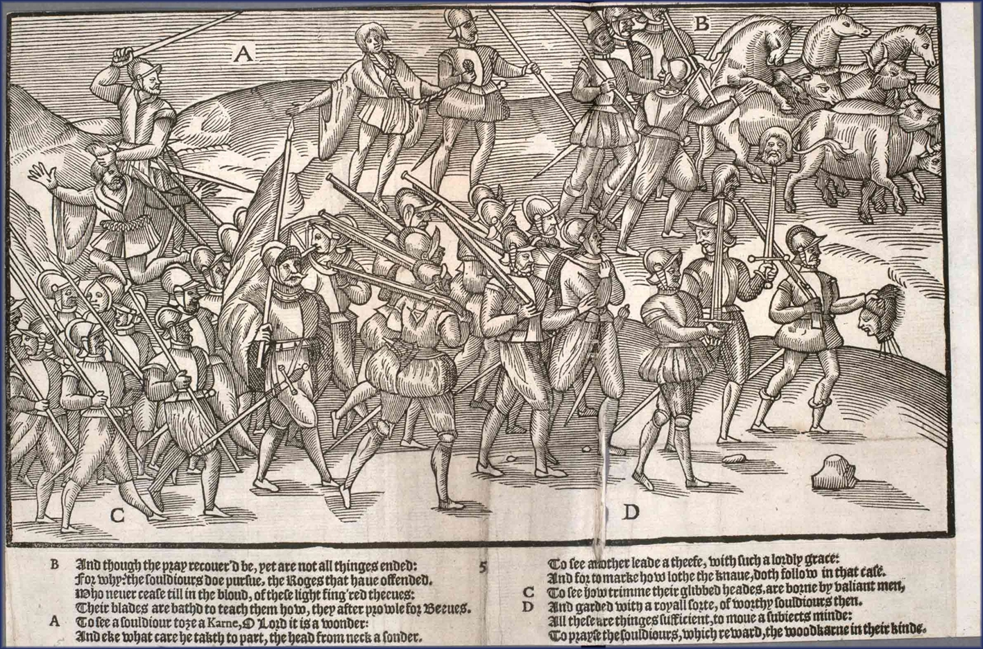 A plate originally from The Image of Irelande, by John Derrick, published in 1581. This image was taken from this Edinburgh University Library website - [1], with the description - "The English solders return in triumph, carrying severed Irish heads and leading a captive by a halter".